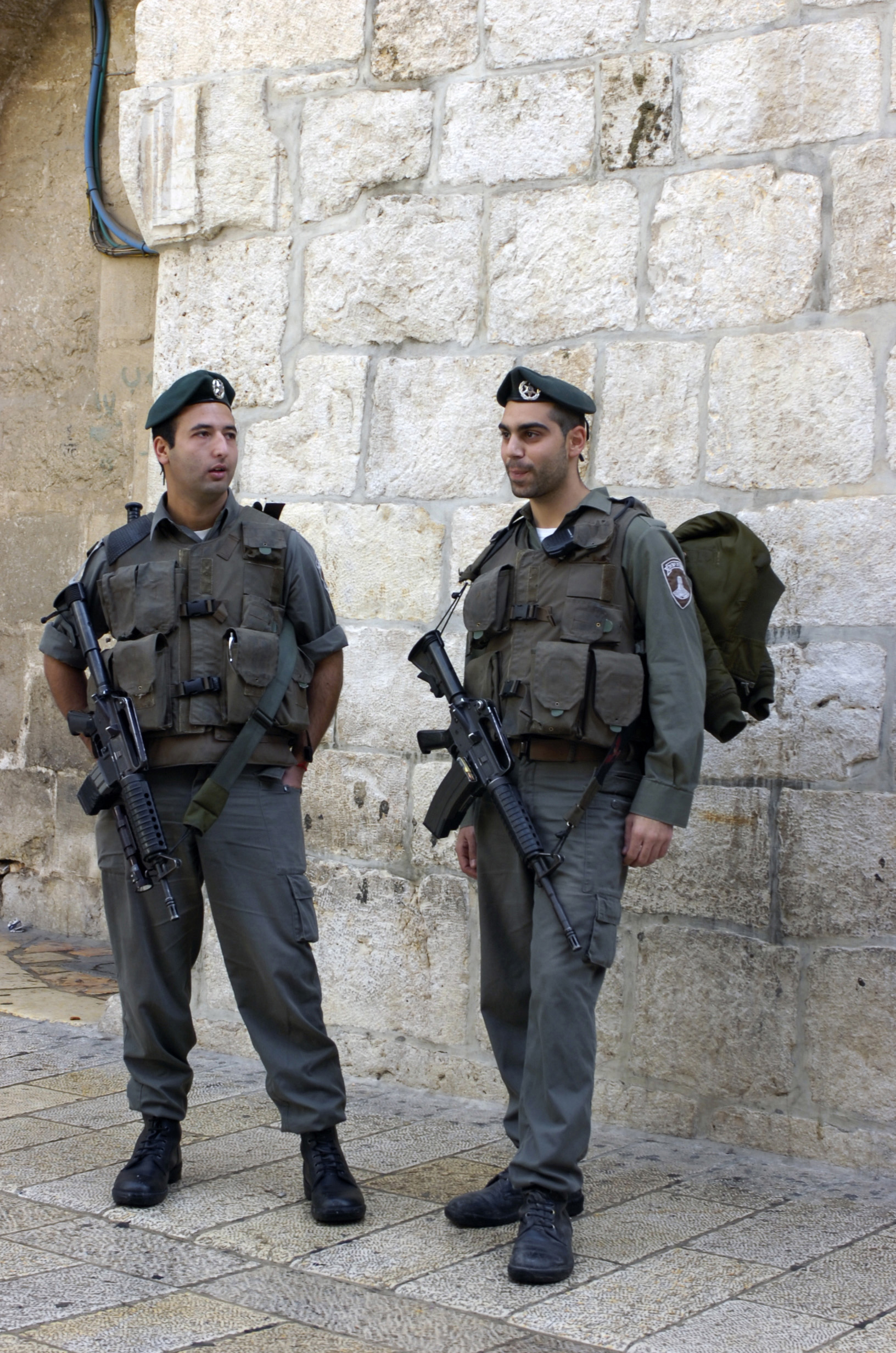 Israel Border Police members provide security while on duty in Jerusalem, Israel Dec. 2, 2007.